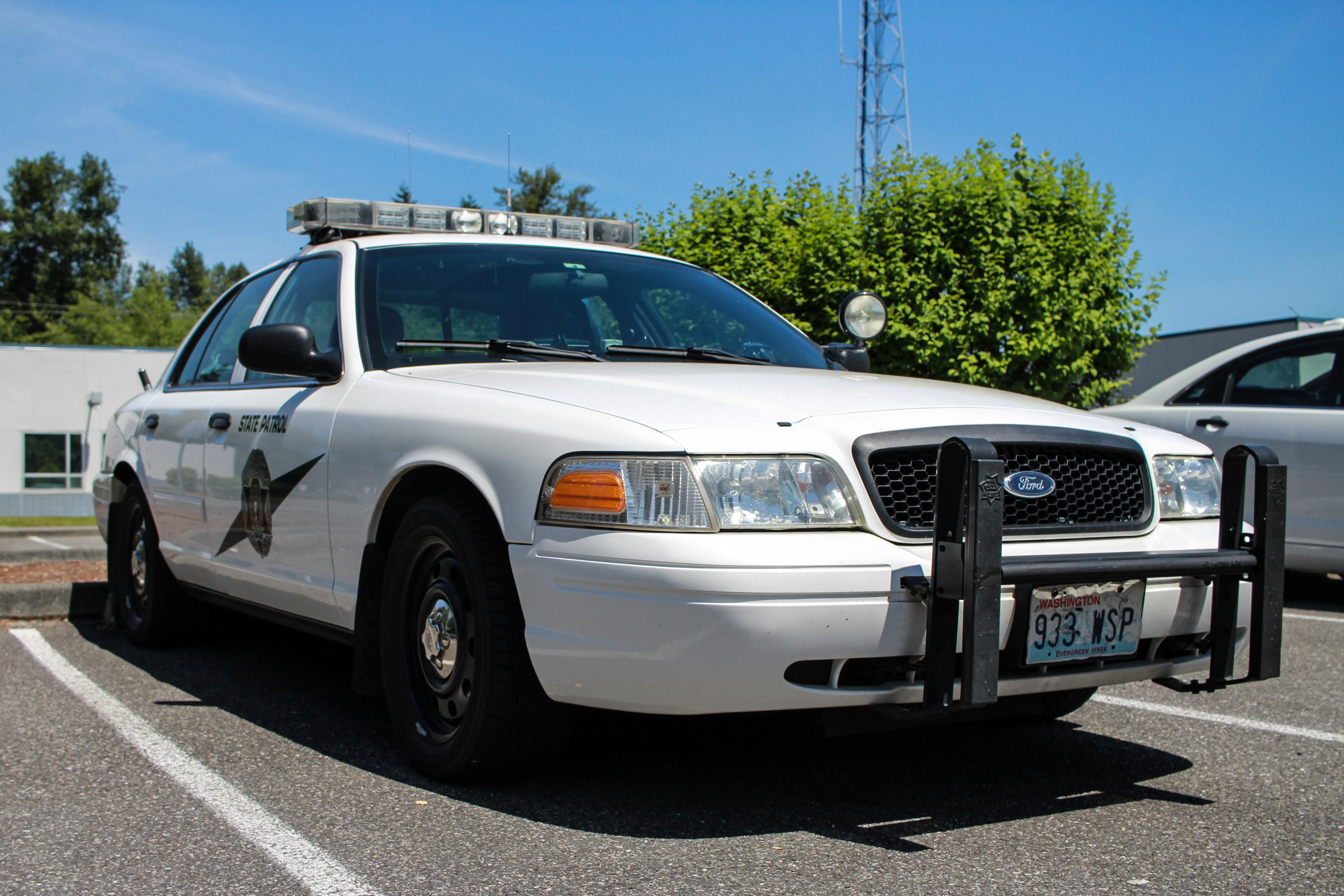 Washington State Patrol (933)